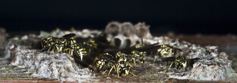 From the right to the left, in the foreground of the photo, you can appreciate the difference in the size of the facial markings of three L. vechti females.